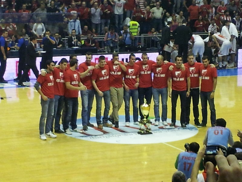 VK Crvena zvezda, Europe champion